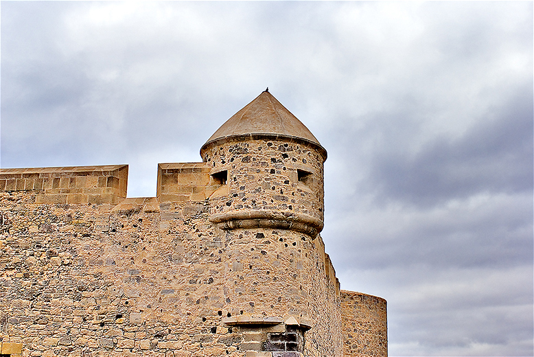 Tower of the "Castillo de La Luz", defensive construction from where tubes against the pirate and naval incursions went off that tried to sack the city of Las Palmas de Gran Canaria (Gran Canaria, Canary Islands. Spain)